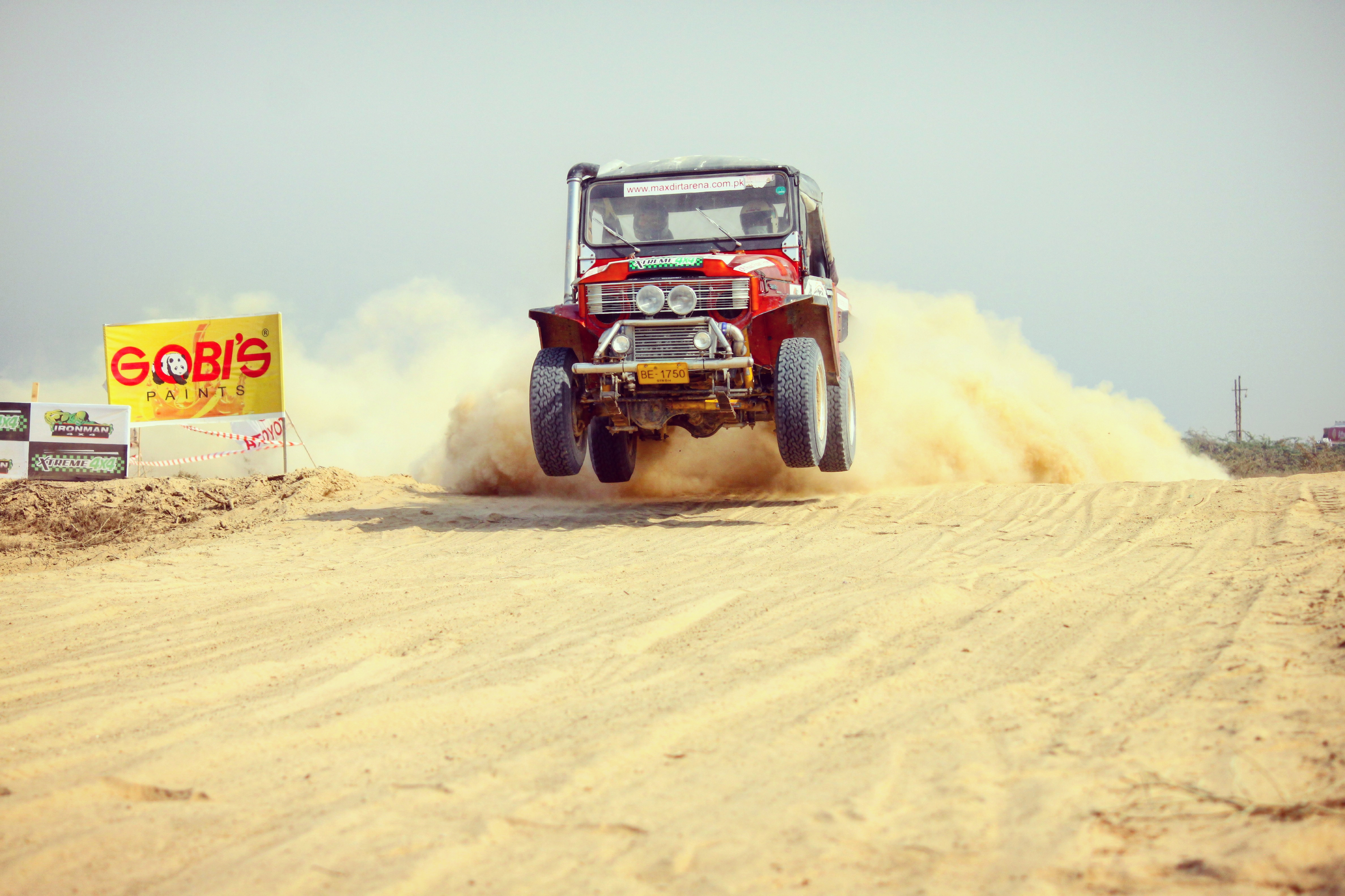 Gwadar jeep relly 2